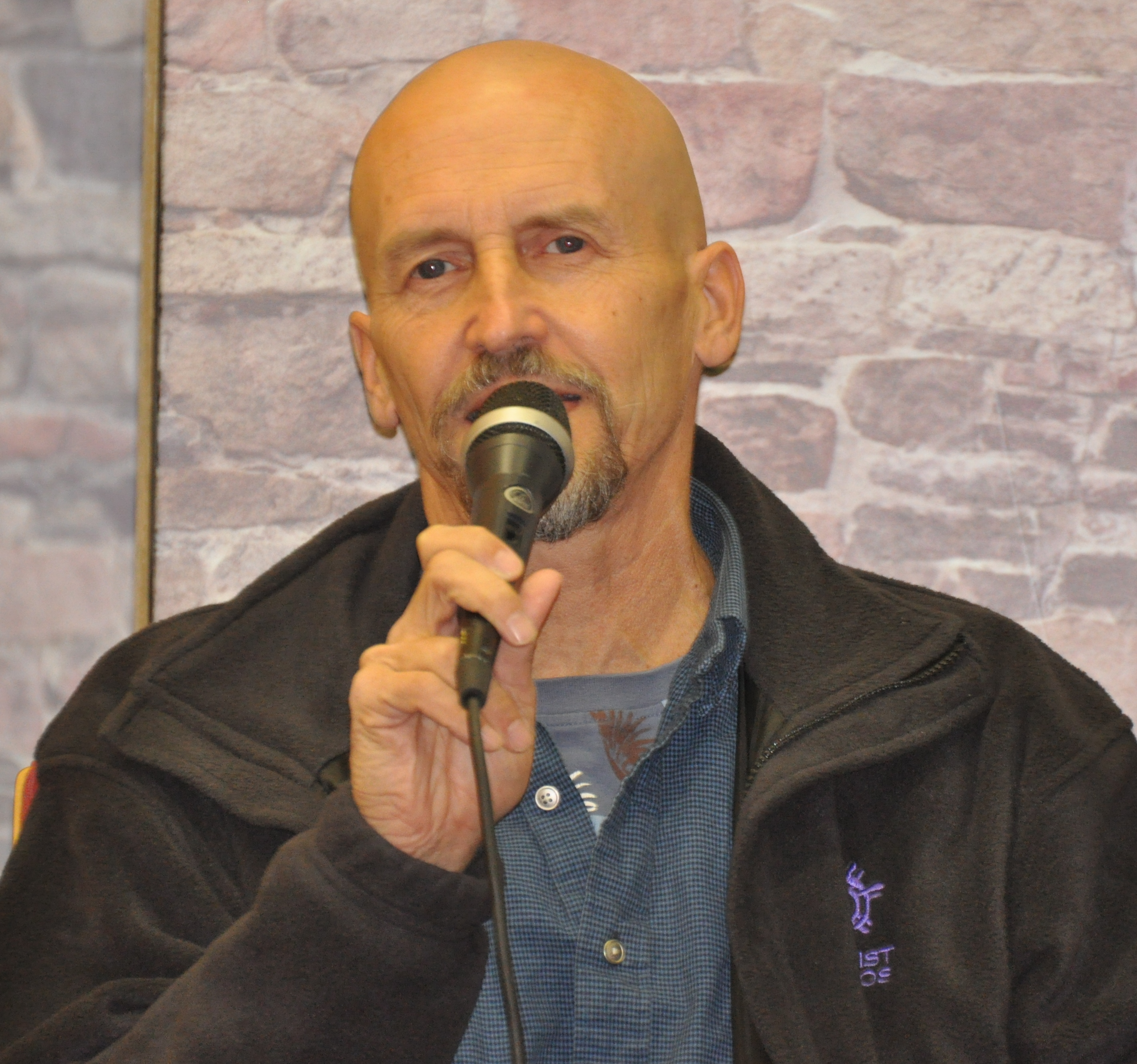 Finnish film director and writer Taavi Kassila at the Turku Book Fair 2010.